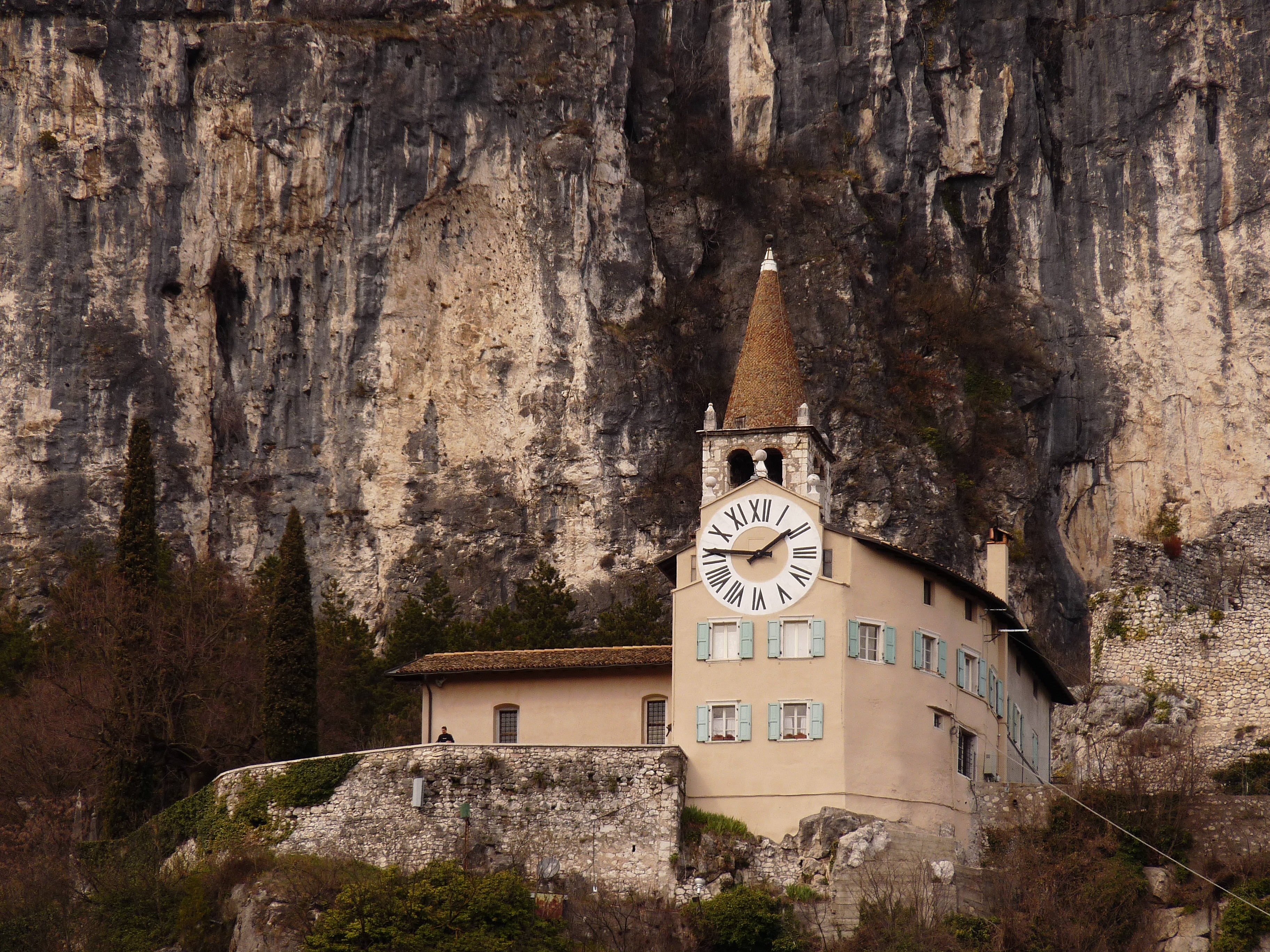 Mori (Italy): the sanctuary of Santa Maria di Monte Albano viewed from south.